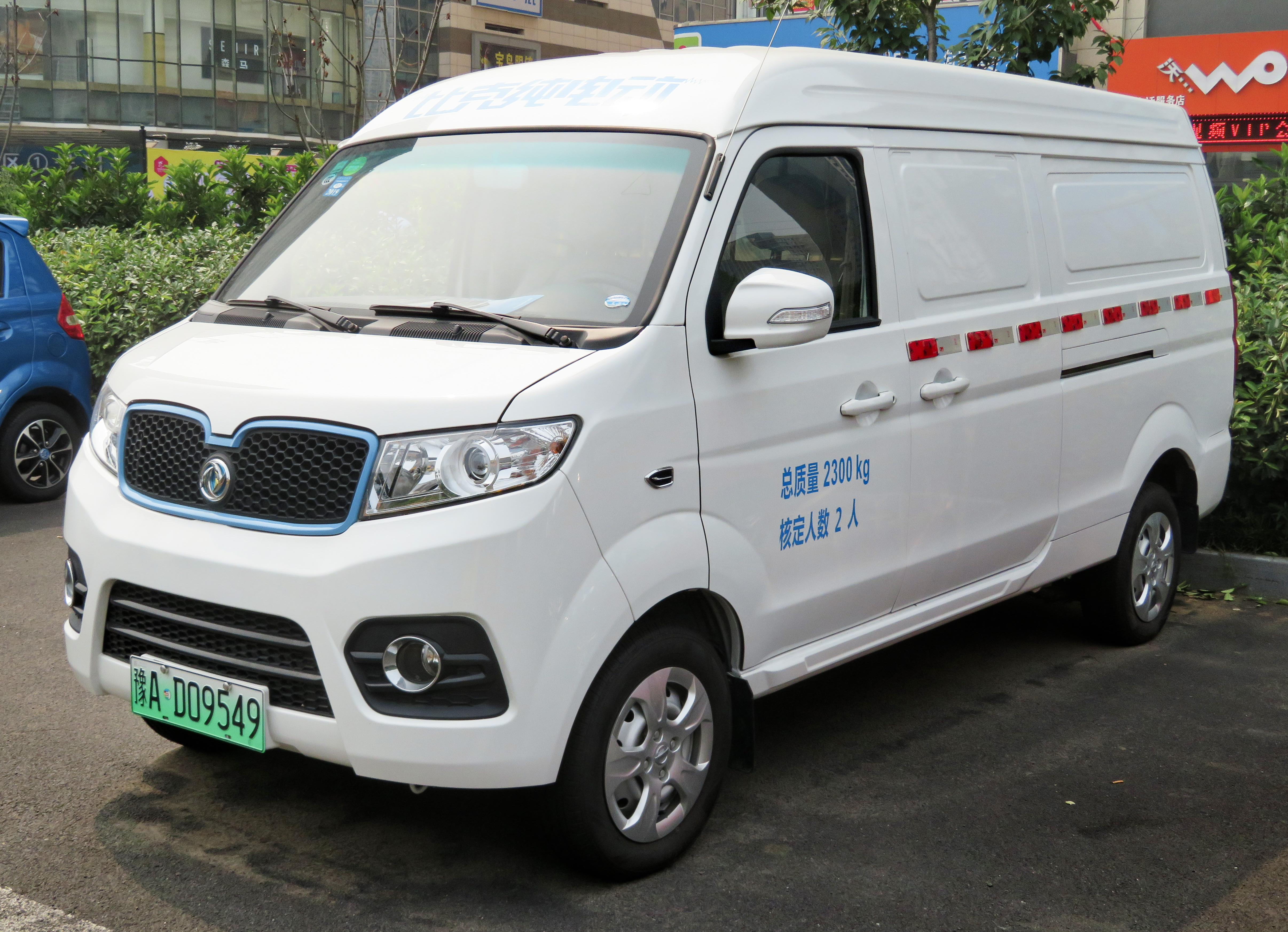 A 2018 Dongfeng EM13 Electric panel van photographed in Xigong District, Luoyang, Henan province, China